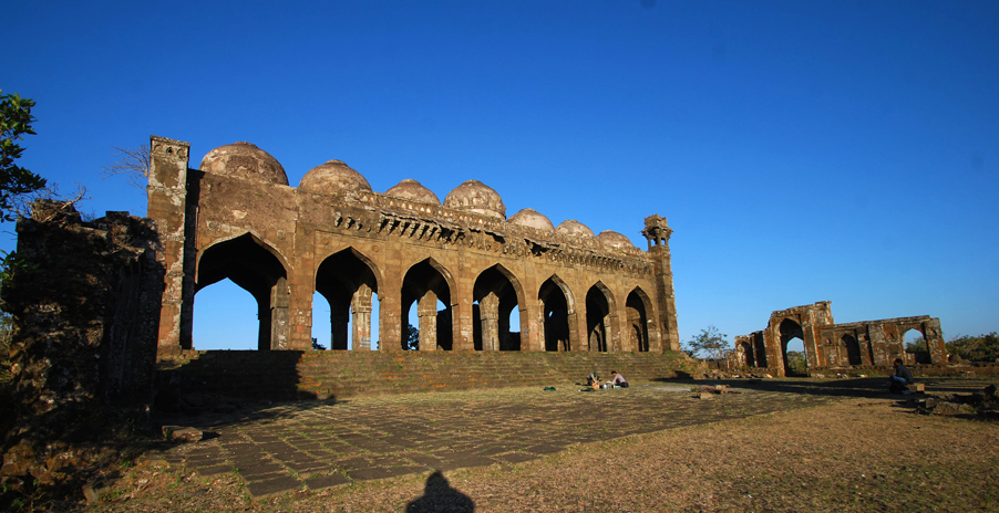 Gawilgarh Fort ( The walls & the whole area contained by them)